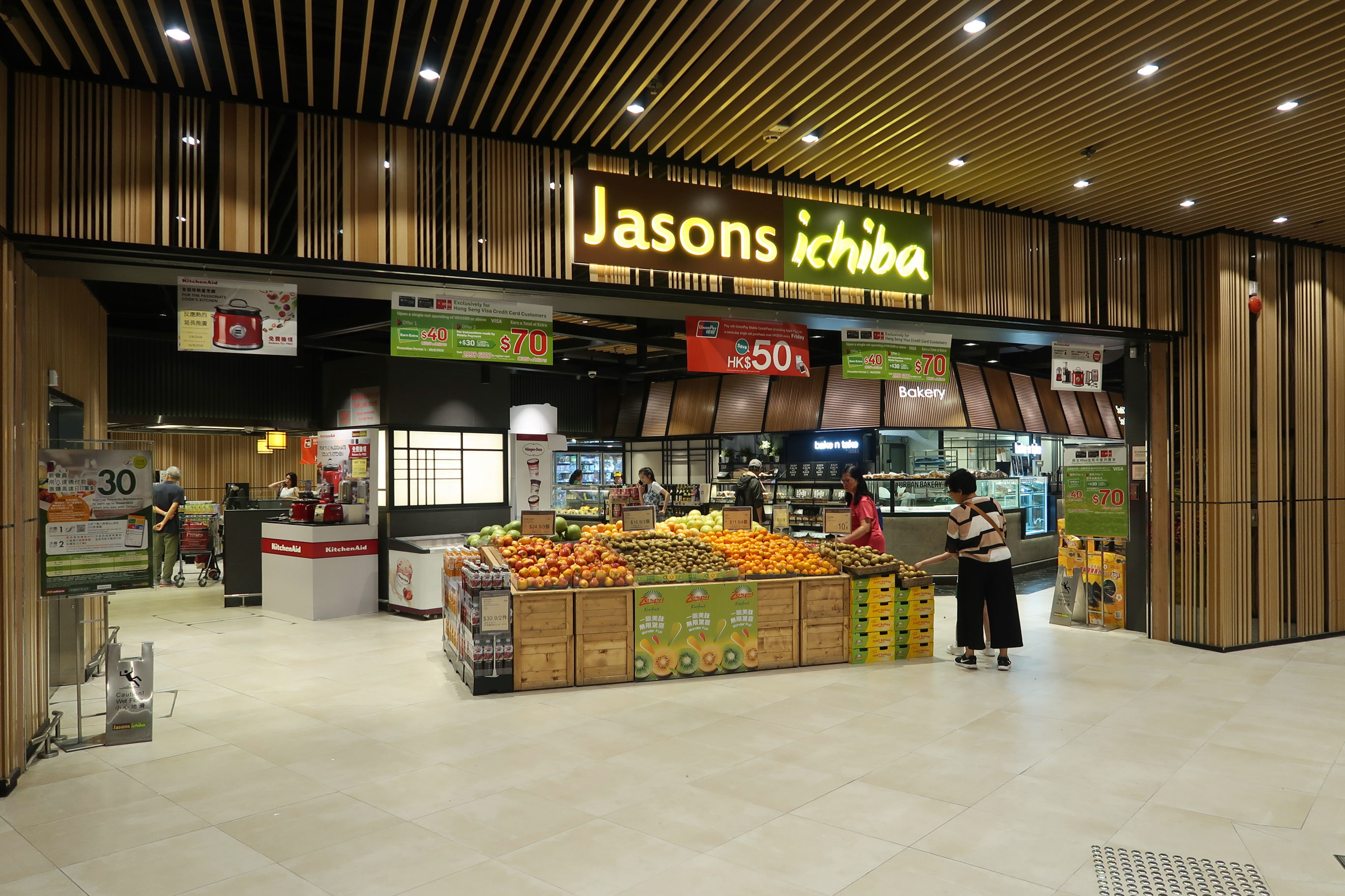 Jasons ichiba